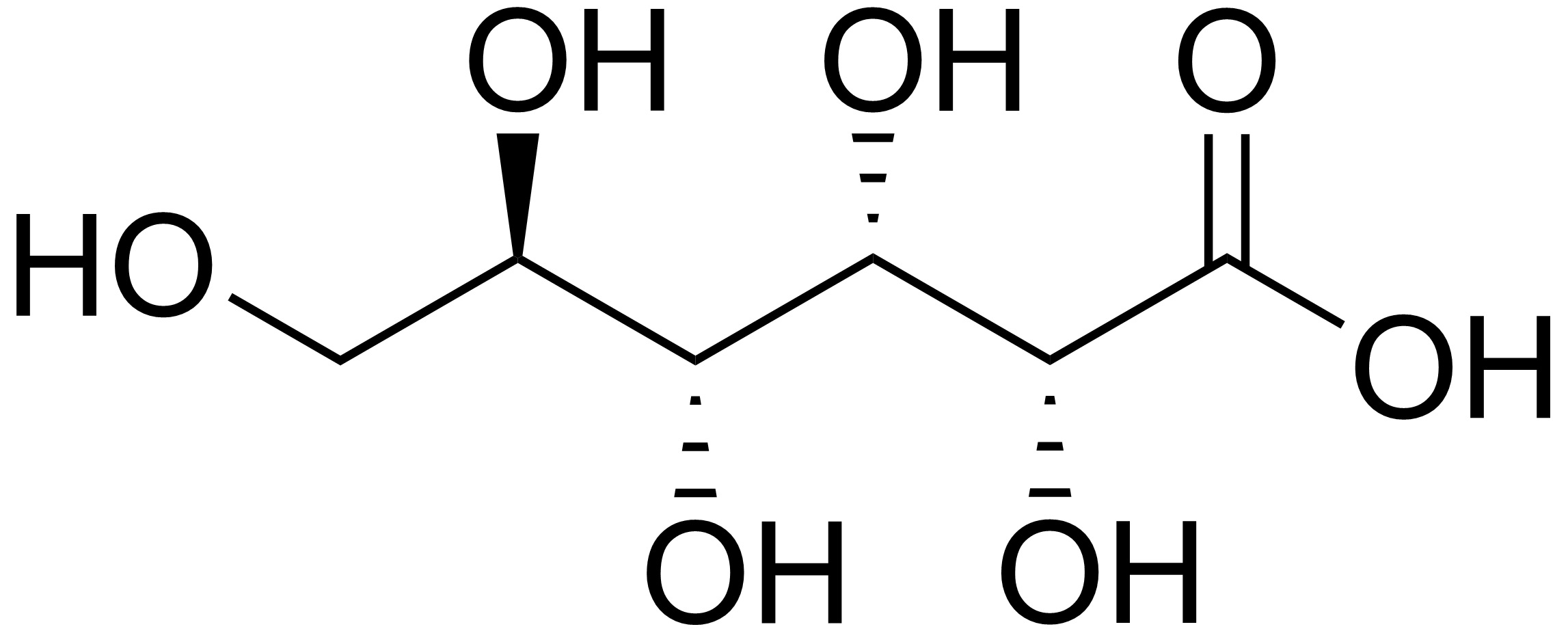 Chemical structure of gluconic acid created with ChemDraw.